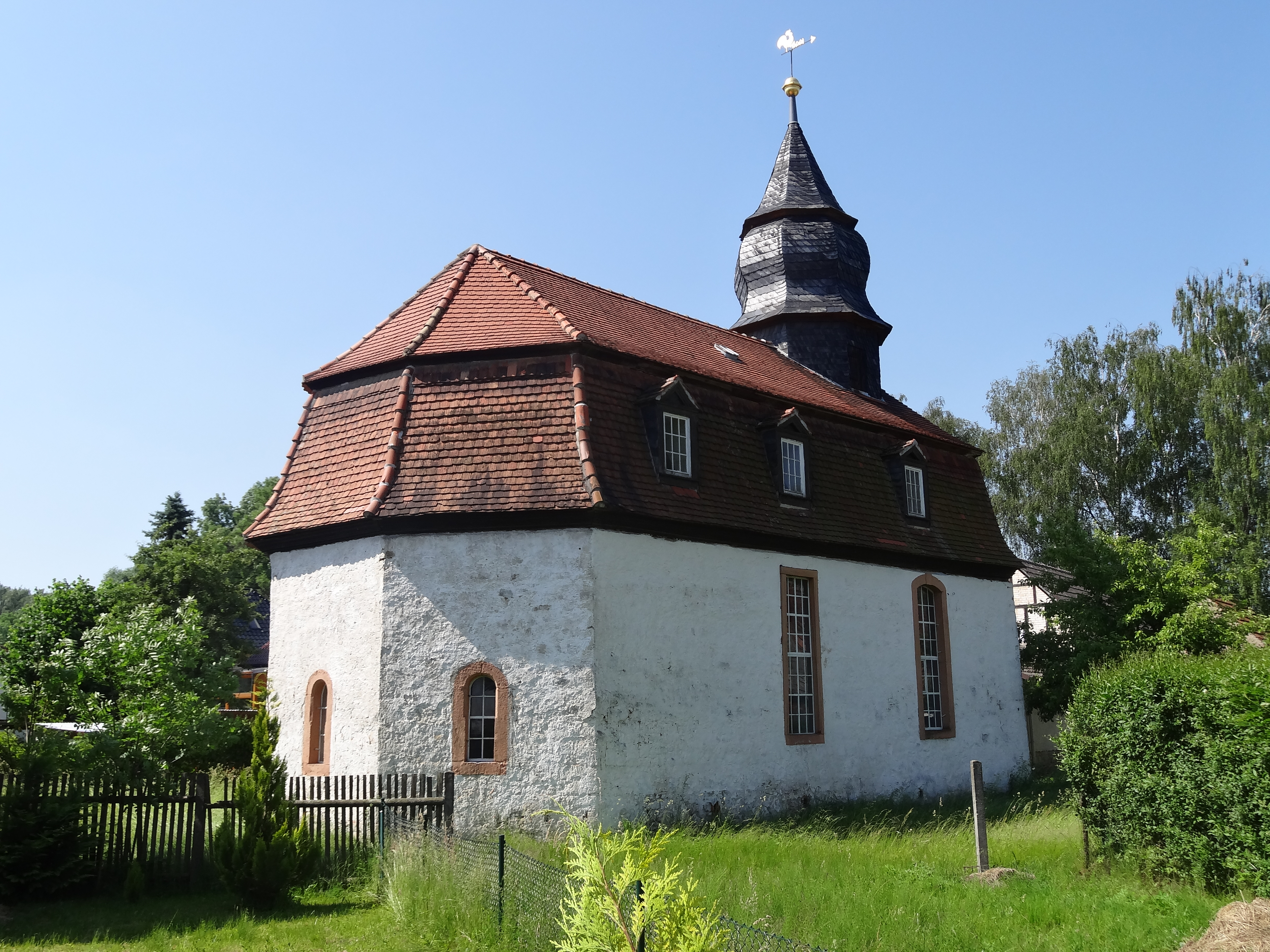 Church of Söllnitz, Blankenhain, Thuringia, Germany